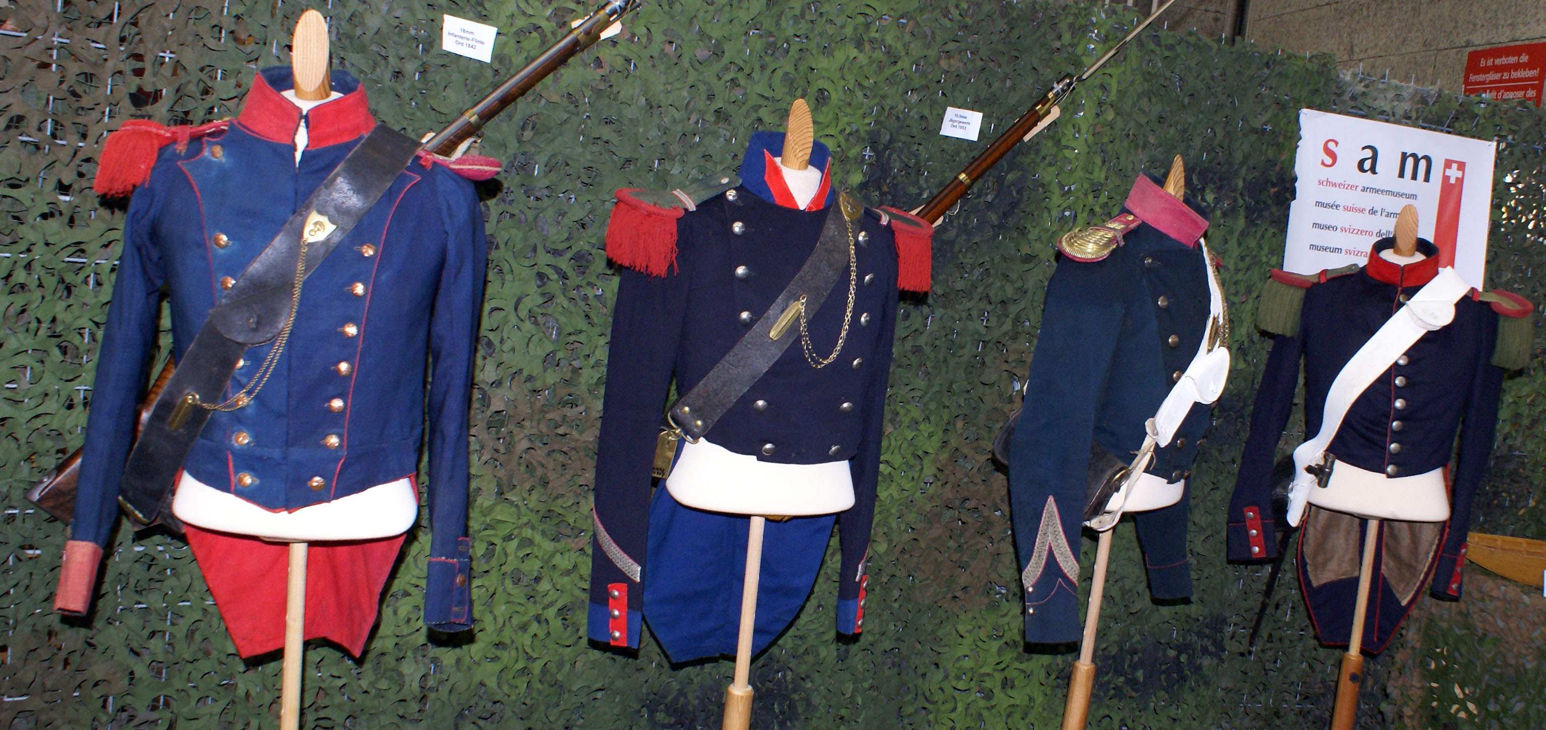 Swiss Army. Sonderbund War uniforms, 1847. From left to right: cavalry, infantry, Jäger, artillery. Swiss Army Museum. Shot at the Army Days 2006 (Heerestage 2006) in Thun.